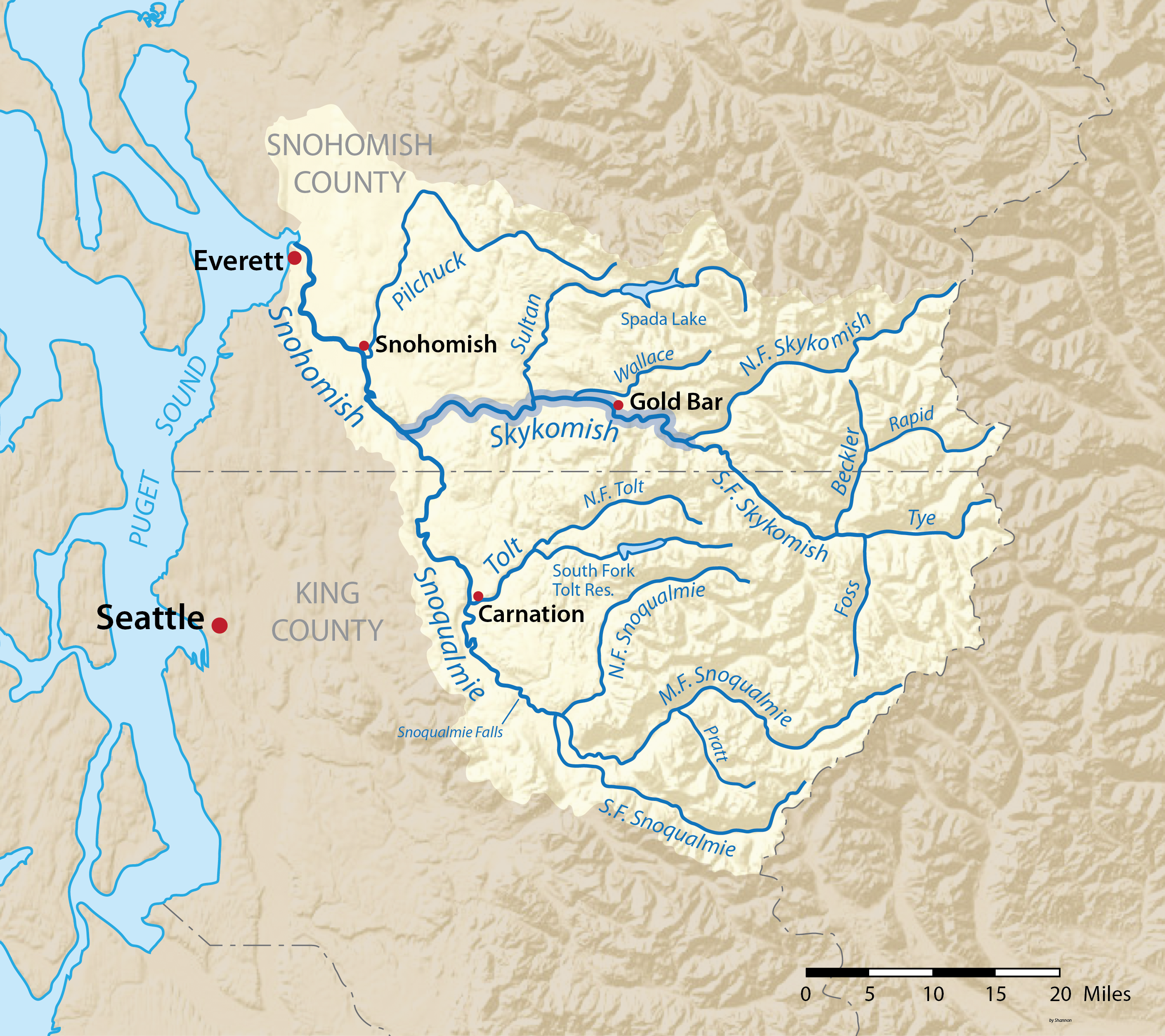 Map of the Snohomish River watershed in Washington, USA with the Skykomish River highlighted. Made using USGS National Map data. Replacement for File:Skykomishrivermap.jpg.